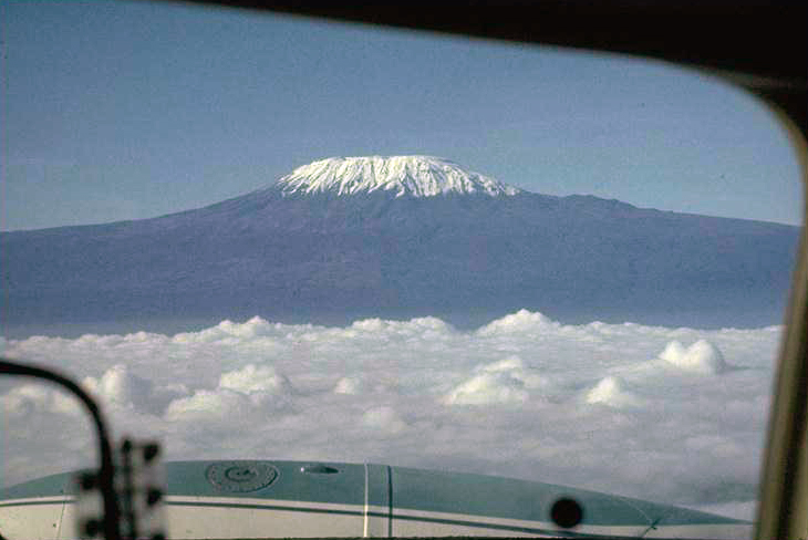 View of snowcap on Kilimanjaro in 1979